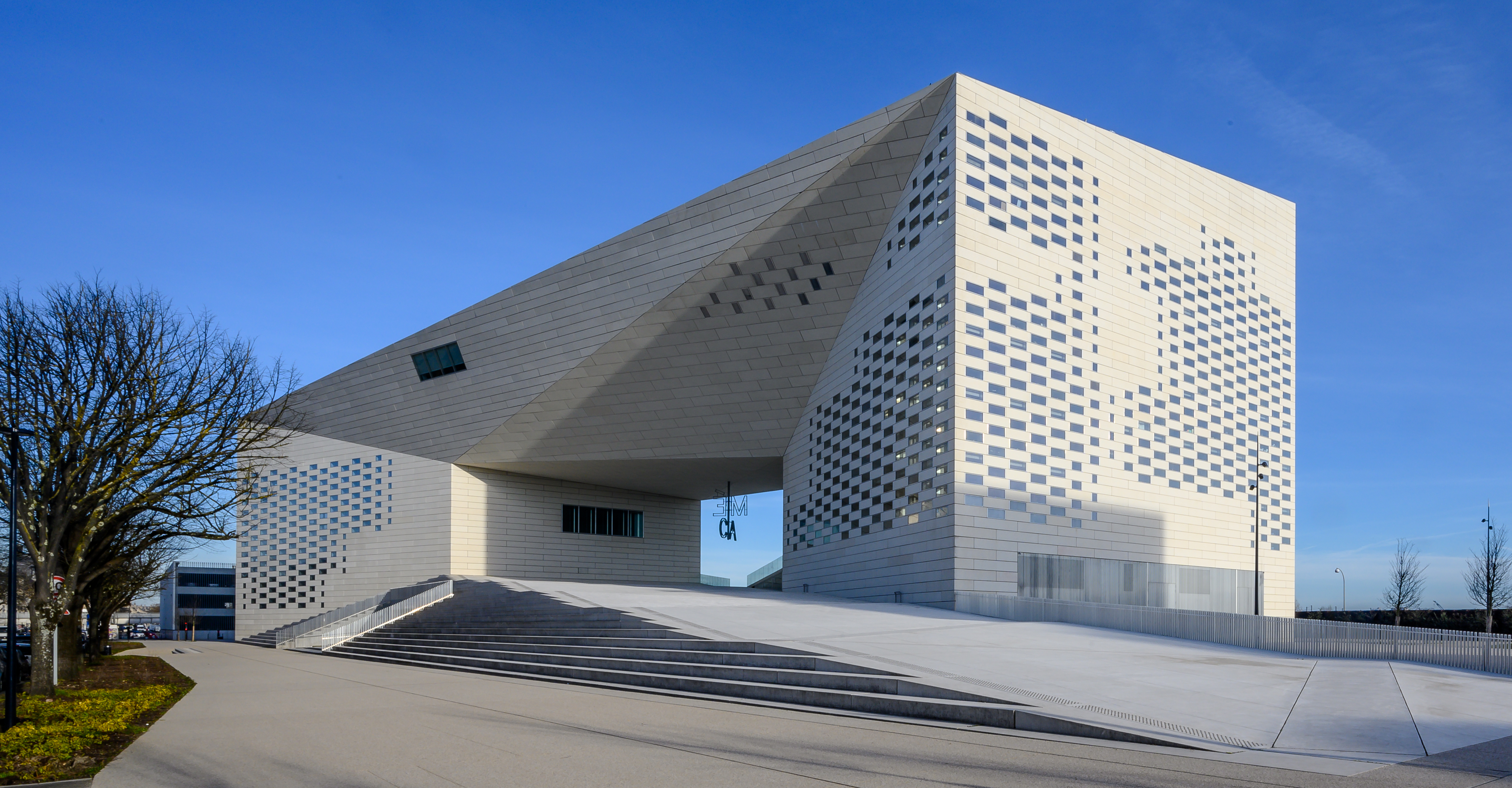 MÉCA Bordeaux Maison de l’Économie Créative et de la Culture en Aquitaine